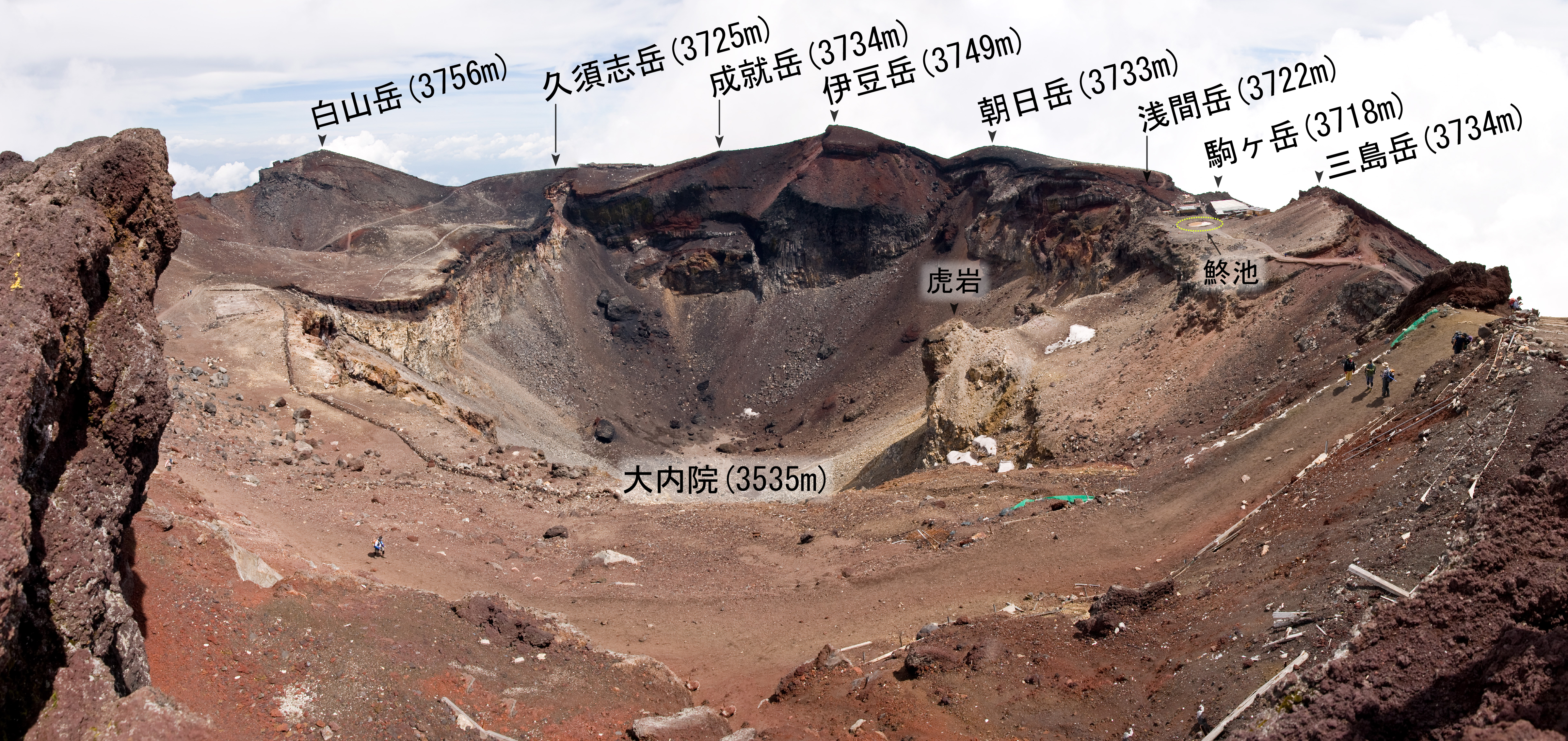 Hasshinpo (八神峰 はっしんぽう Hasshin-po ; it means Eight sacred peaks) of Mt.Fuji, Shizuoka and Yamanashi Prefectures, Honshu, Japan.